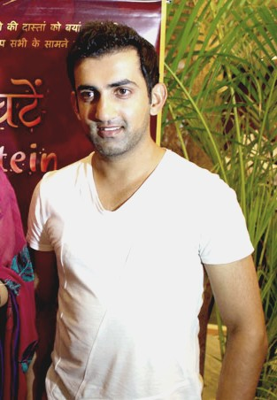 Cricketer Gautam Gambhir at the Launch of Salwatien Shaily's first poetry book Salwatien